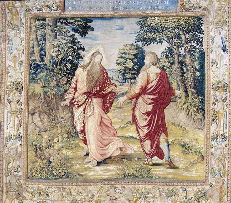 God's conversation with Noah. Series History of Noah.